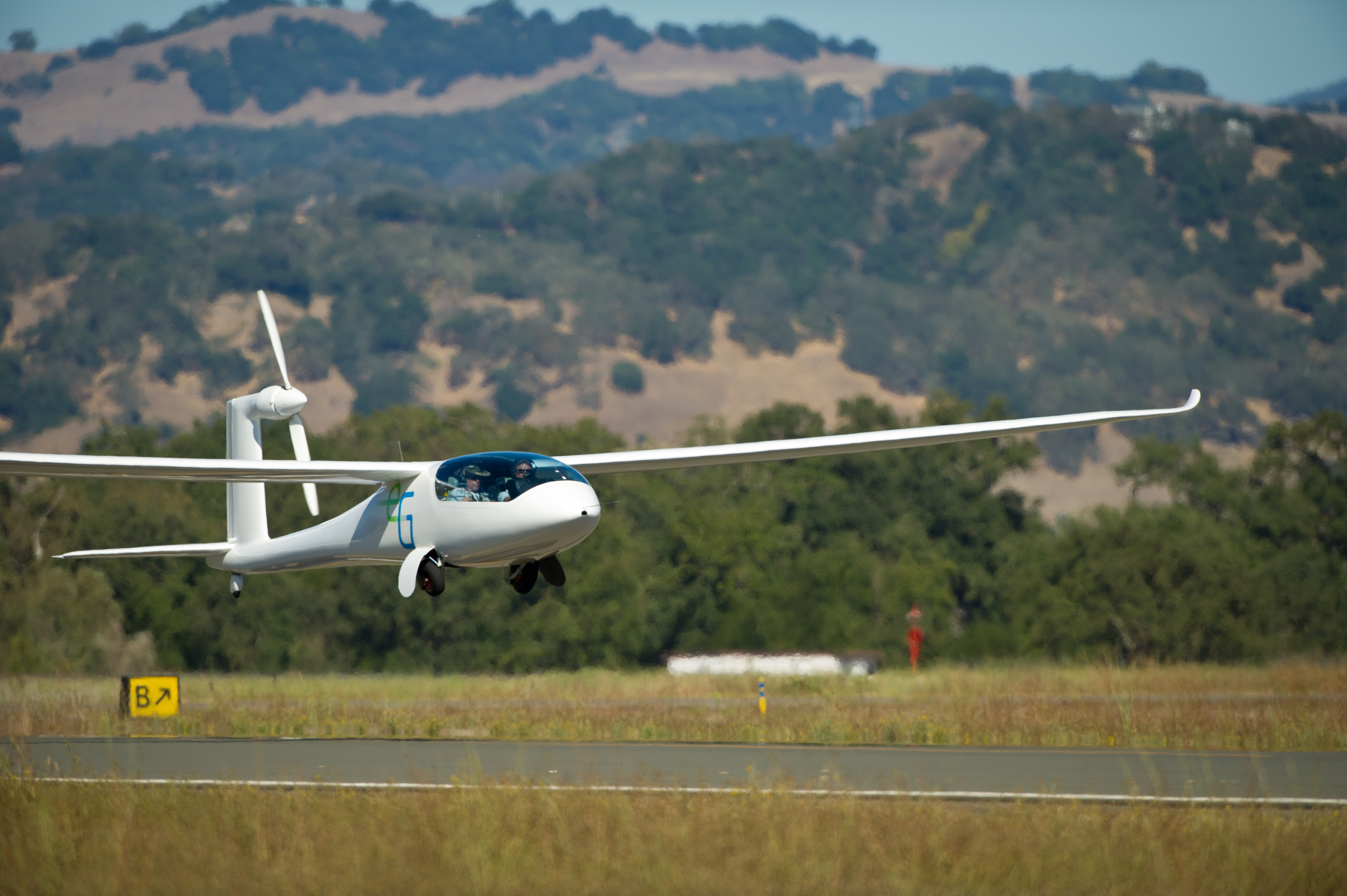 The e-Genius aircraft takes off during the 2011 Green Flight Challenge, sponsored by Google, at the Charles M. Schulz Sonoma County Airport in Santa Rosa, Calif. on Monday, Sept. 26, 2011. NASA and the Comparative Aircraft Flight Efficiency (CAFE) Foundation are having the challenge with the goal to advance technologies in fuel efficiency and reduced emissions with cleaner renewable fuels and electric aircraft.